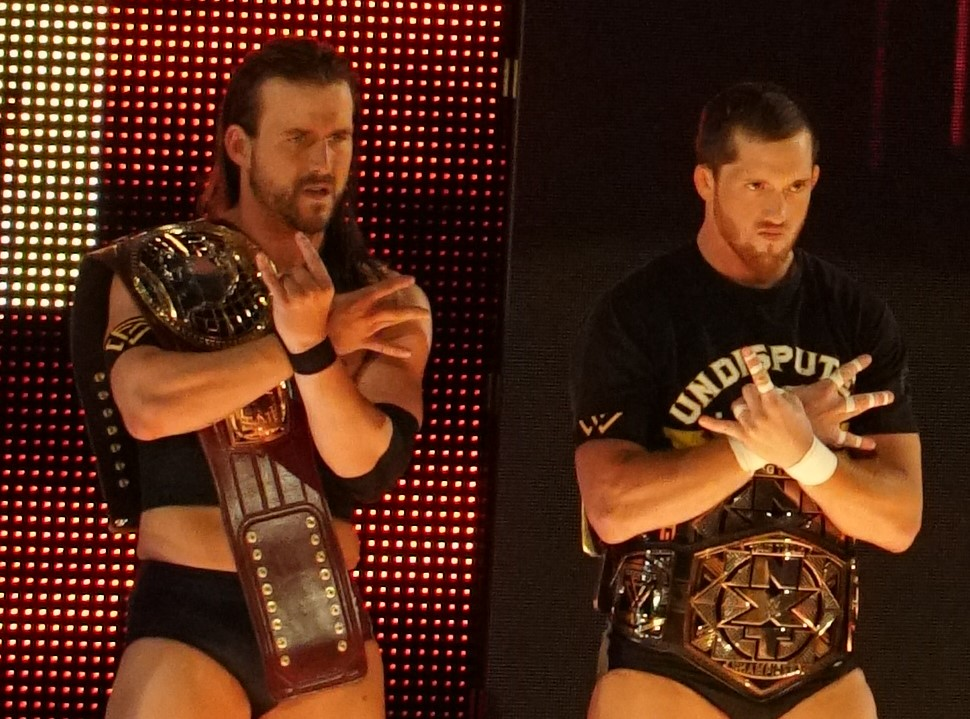 Adam Cole (left) and Kyle O'Reilly as the NXT Tag Team Champions at NXT TakeOver: New Orleans in April 2018.